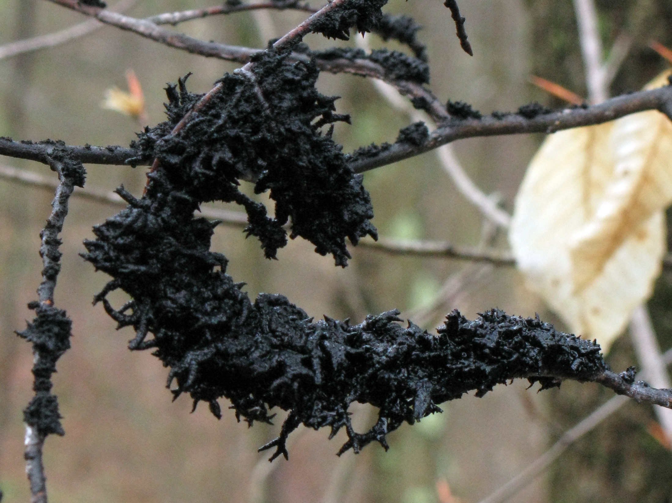 The fungus Scorias spongiosa (Schwein.) Fr. Photographed in Strouds Run State Park, Athens, Ohio, USA.